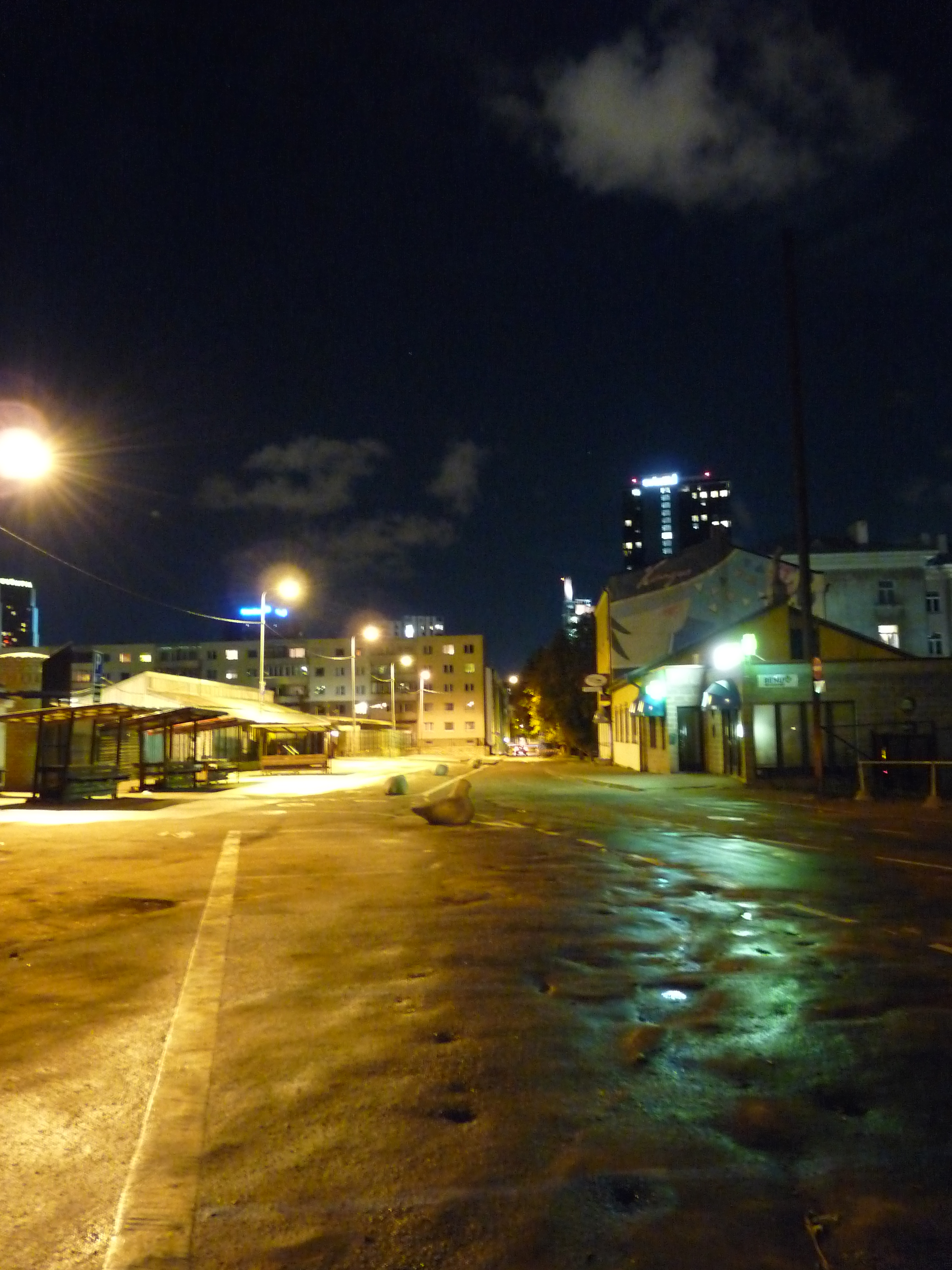 Lastekodu street in Tallinn, Estonia